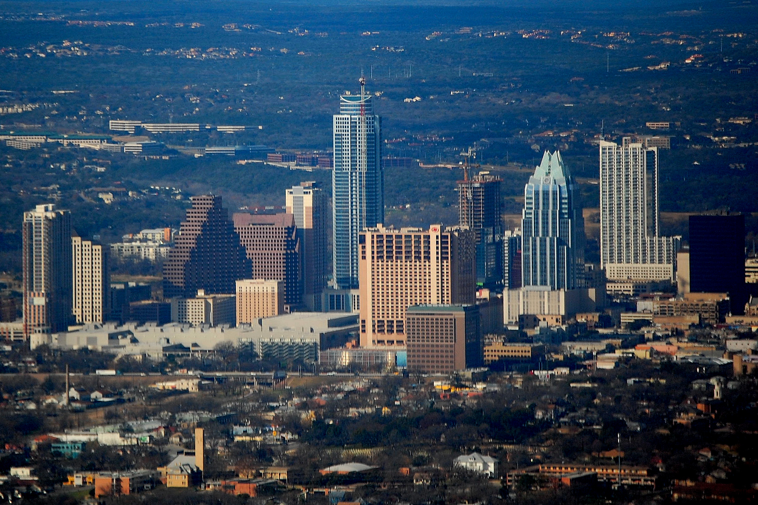 Austin Skyline as seen on approach to Austin Bergstrom International Airport